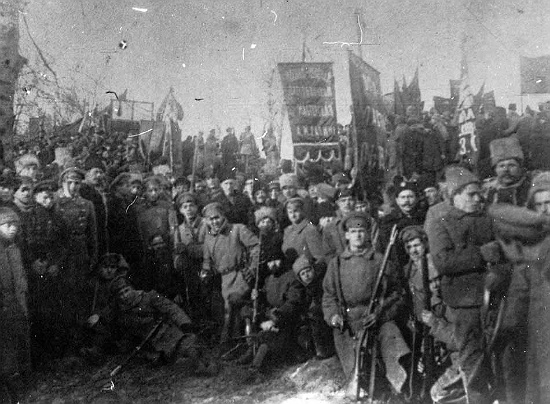 Group of armed workers - participants of the January uprising. Central documentary archive of Ukraine named after G.Pshenychnyi